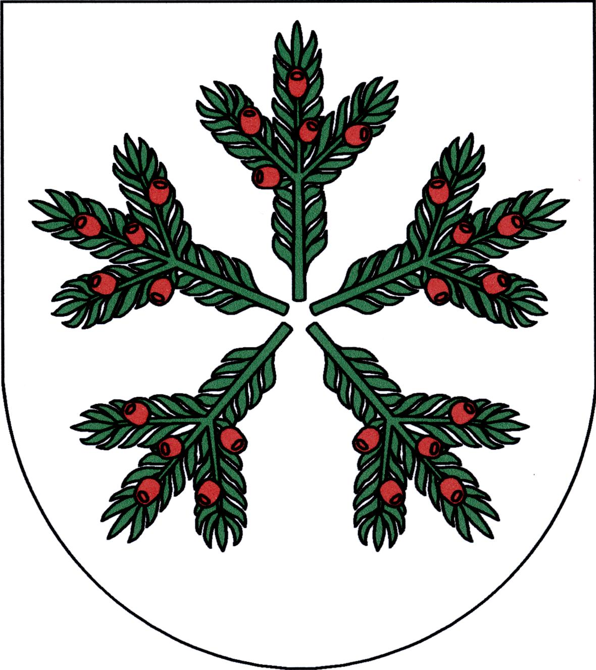 Coat of arms of Tisovec, Chrudim District